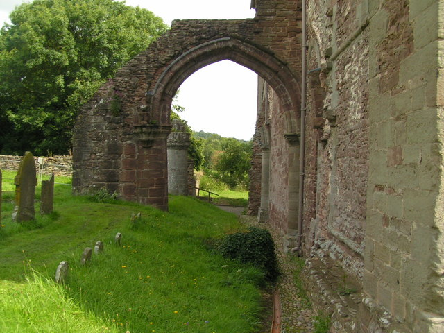 Abbey Dore exterior